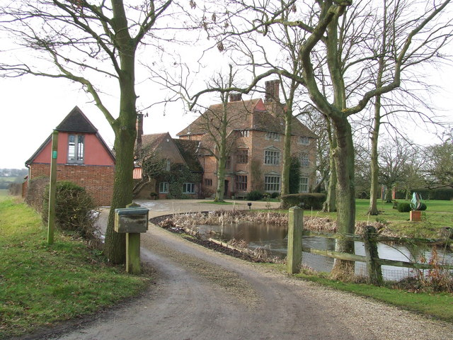 High Hall High Hall near to Willisham, Suffolk.